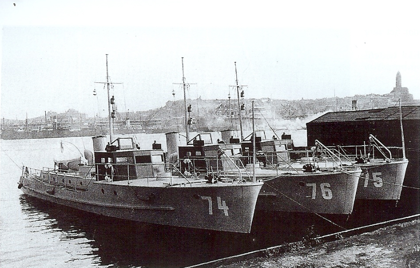 The three Swedish patrol boats 74 Kanholmsfjärd, 76 Edöfjärd and 75 Lidöfjärd ready for delivery from Götaverken. From Curt S. Ohlsson's collections.